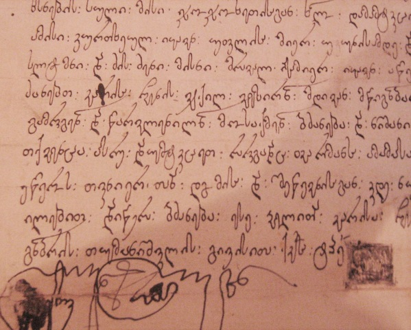 Charter of King Erekle I